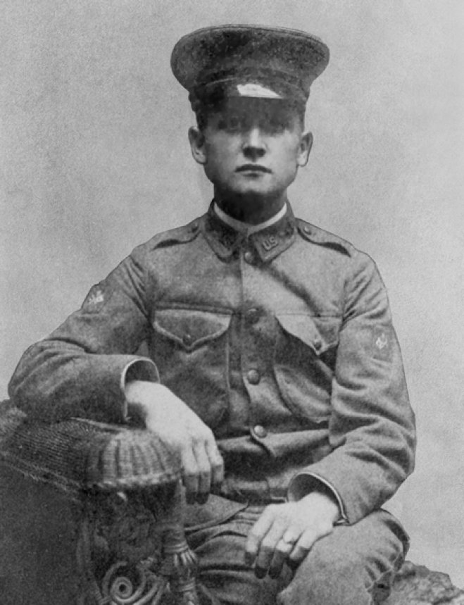 Chivalette, Master Sergeant William I. "Chapter 2: Enlisted History." Part of Professional Development Guide. Air Force Pamphlet AFPAM36-2241, July 1, 2009.